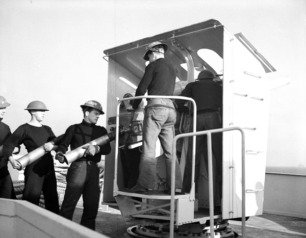 LAC caption : "Crew of a four-inch gun of the frigate H.M.C.S. NEW GLASGOW off the coast of British Columbia, Canada, ca. 1944." Comment : This shows a QF 4-inch Mk XIX gun.